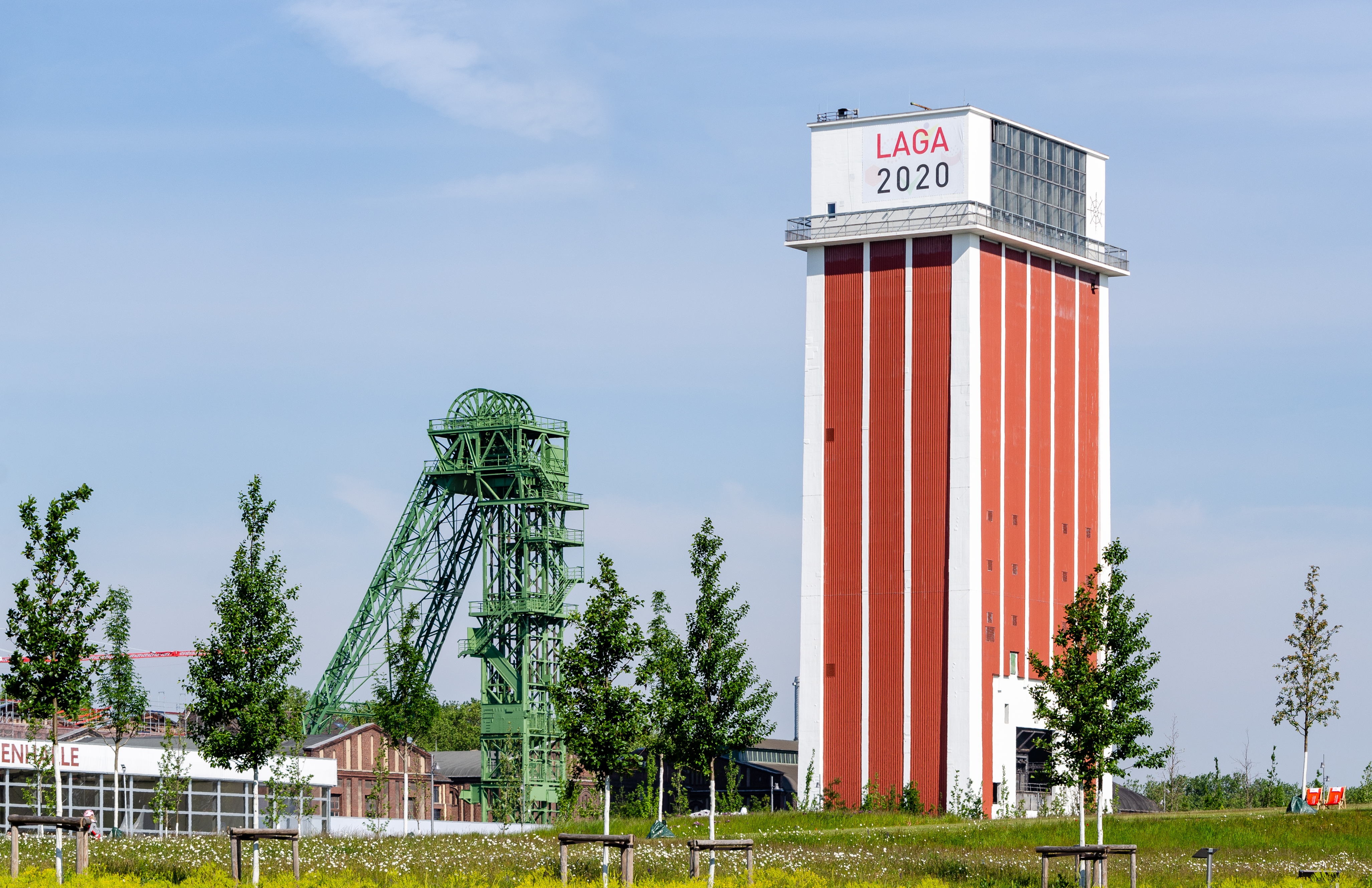 Kamp-Lintfort (North Rhine-Westphalia, Germany) – Friedrich Heinrich Coal Mine, shafts 1 & 2, during the 2020 North Rhine-Westphalian horticultural show (“Landesgartenschau”) – winding towers and mine park